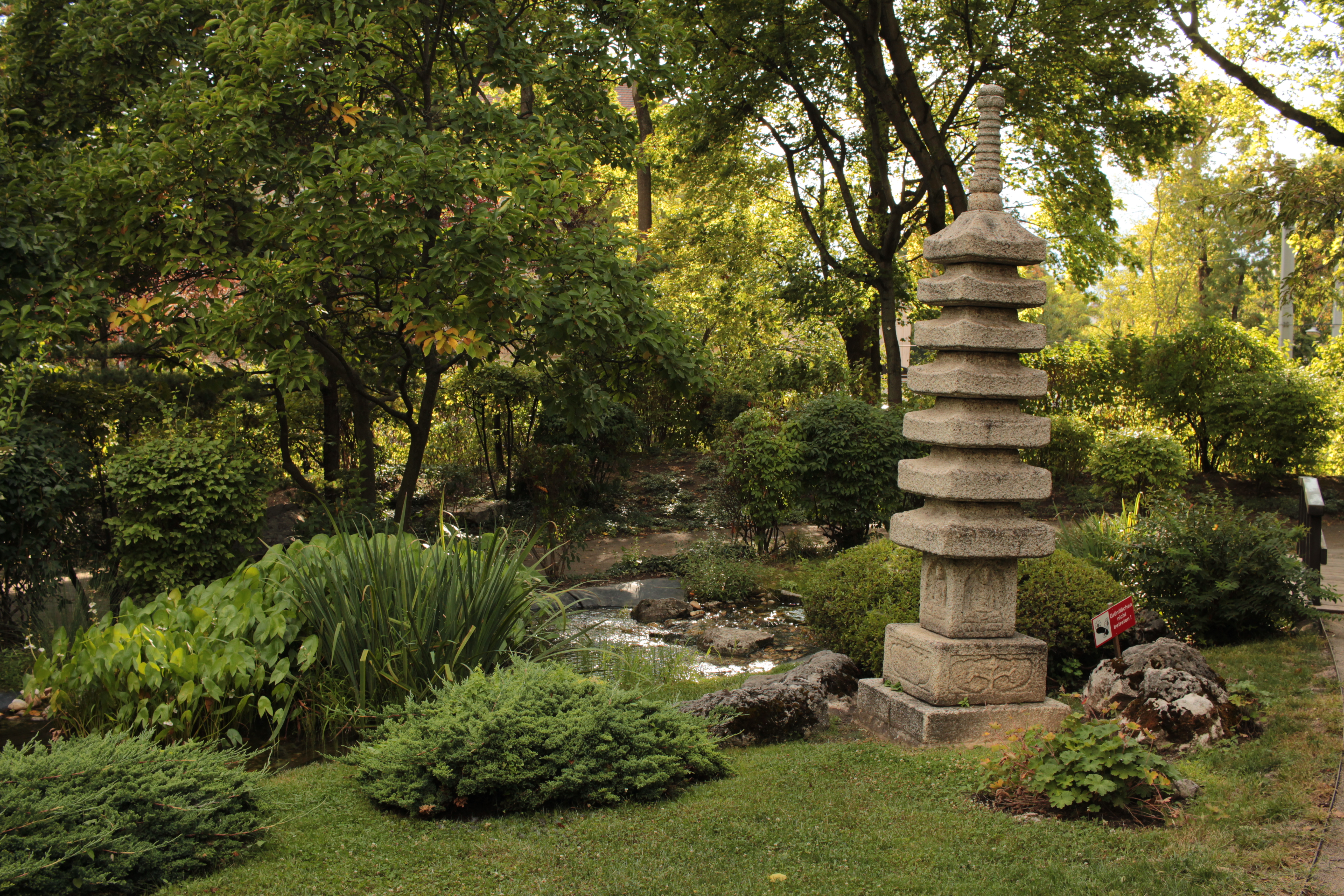 Setagayapark, Japanese garden in Vienna (Austria)